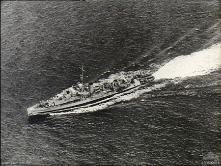 AWM caption : AERIAL PORT SIDE VIEW OF THE FRIGATE HMAS BURDEKIN (K376) AT SPEED, SHOWING WARTIME CHANGES. SHE IS NO LONGER PAINTED ALL OVER GREY BUT NOW WEARS WHAT APPEARS TO BE THE US NAVY'S MEASURE 22. IF SO THE COLOURS ARE A MEDIUM GREY AND NAVY BLUE. OF HER ORIGINAL EIGHT SINGLE 20 MM OERLIKON AA GUNS ONLY THE TWO IN THE BRIDGE WINGS REMAIN. THOSE AT THE BREAK OF THE FORECASTLE HAVE BEEN REPLACED BY A SINGLE MOUNTING BUT IT IS NOT POSSIBLE TO DETERMINE WHETHER IT IS A TWIN 20 MM MOUNT OR A 40 MM BOFORS. A BOFORS HAS REPLACED THE TWO 20 MM MOUNTINGS ON THE QUARTERDECK. FURTHER SINGLE BOFORS ARE FITTED ON DECKHOUSES FORWARD OF THE BRIDGE AND THE AFTER GUN. THE 4 INCH GUNS HAVE BEEN FITTED WITH LARGER SHIELDS. THE TYPE 271 RADAR HAS BEEN REMOVED FROM THE BRIDGE ALTHOUGH THE SC-1 REMAINS AT THE MASTHEAD.